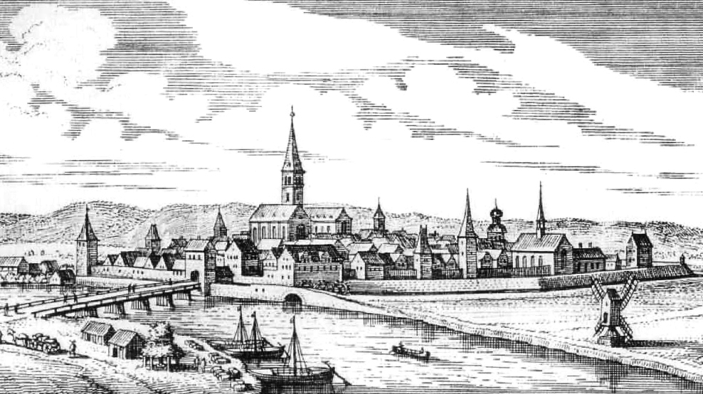 This is a scan of the historical document:Publication date 1647publication_date QS:P577,+1647-00-00T00:00:00Z/9Source